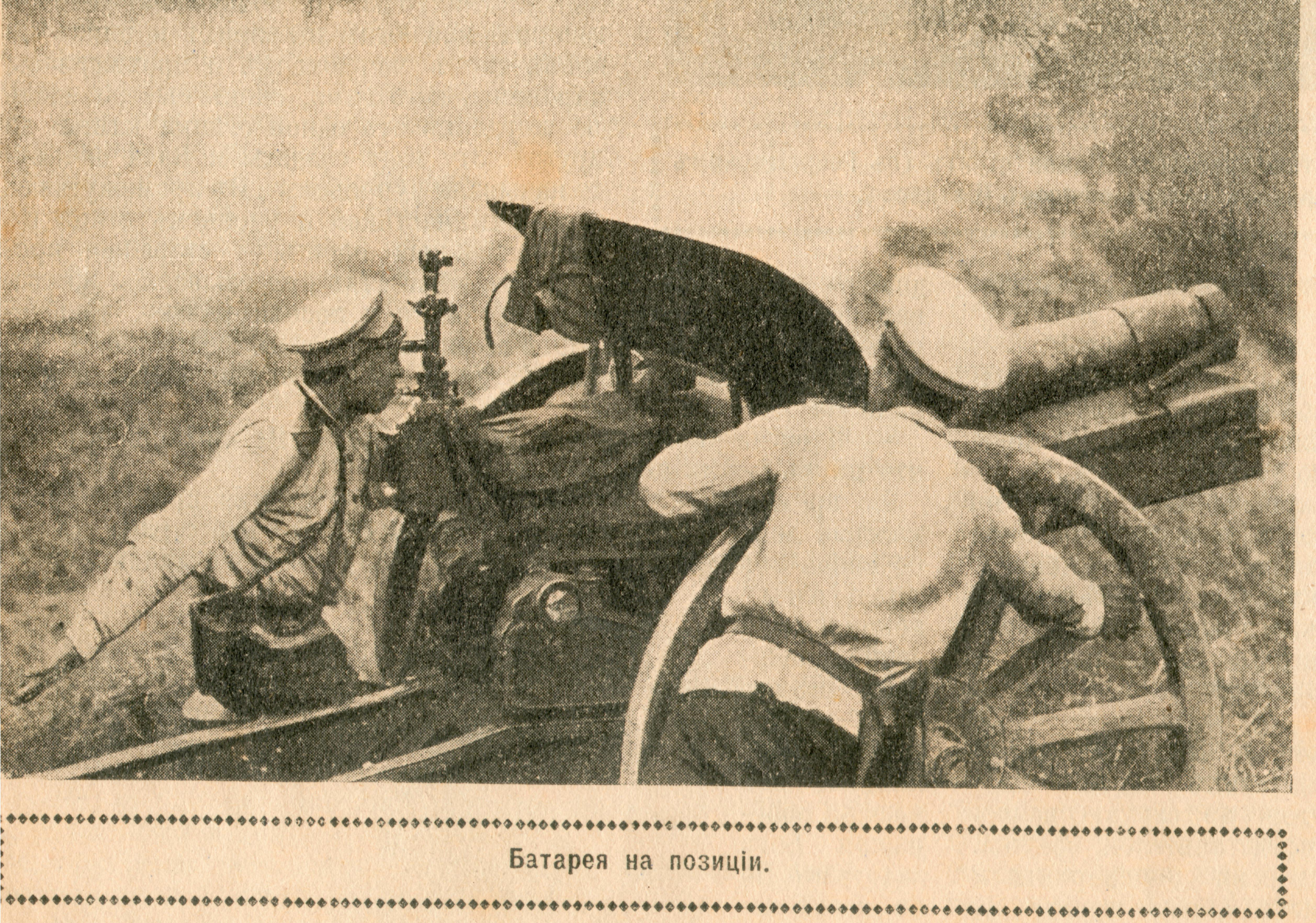 Russian 122 mm howitzer M1909 on the German Front, 1915.